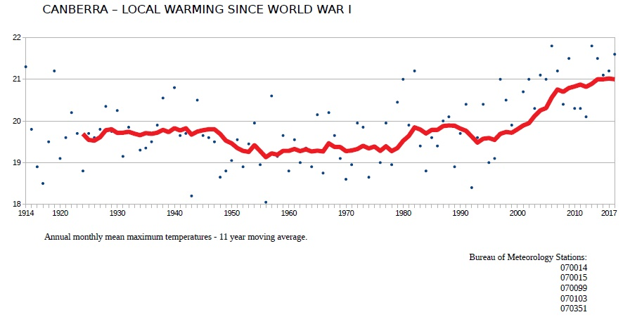 Global warming Canberra.